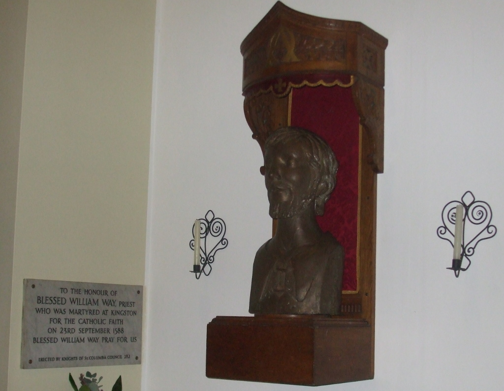 Shrine to Ven. William Way in St. Agatha's Catholic Church, Kingston upon Thames, England. William Way was a Catholic priest executed for his faith at Kingston 23 September 1588.